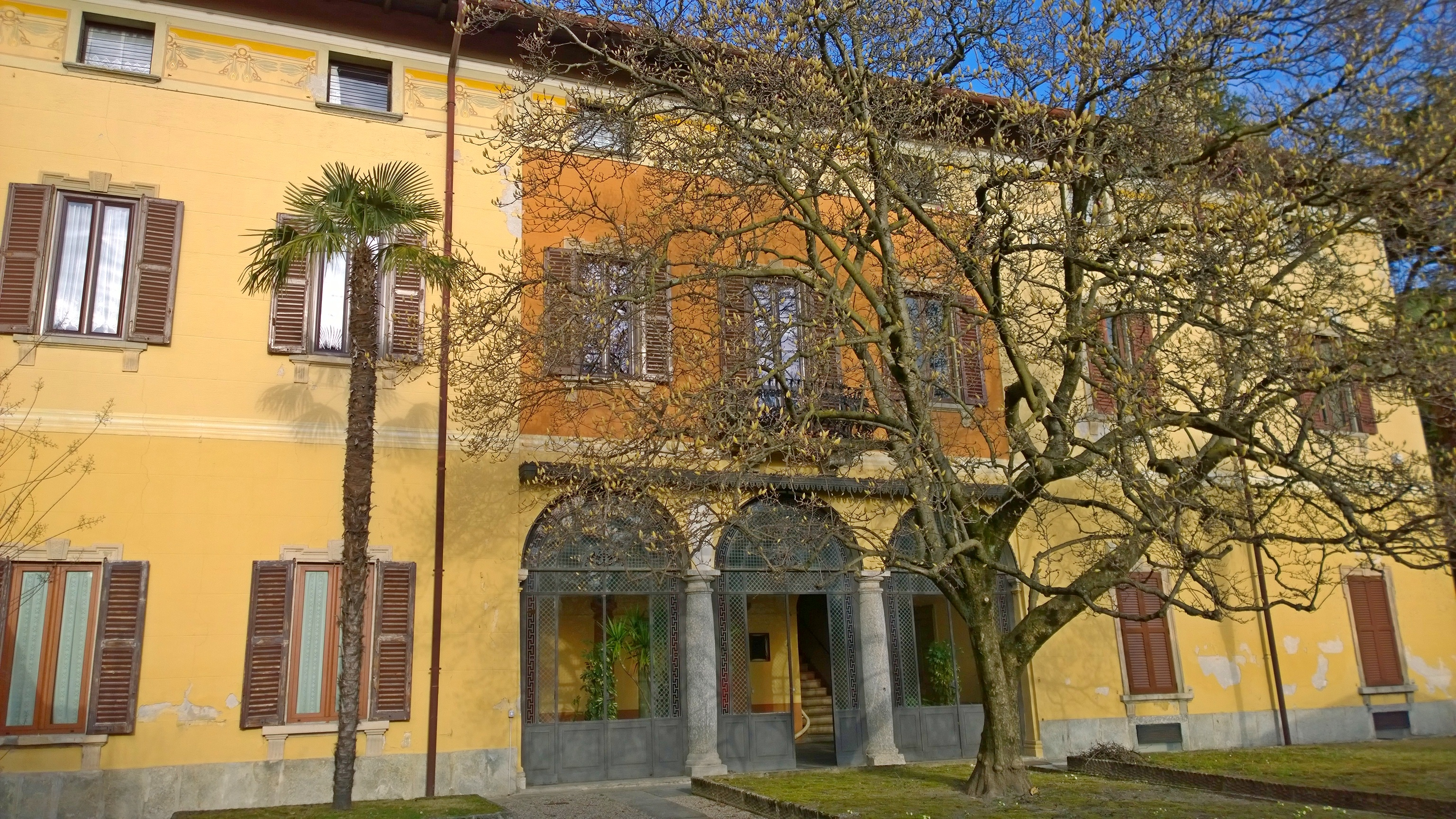 Particular of Villa Raverta in Canzo, Italy